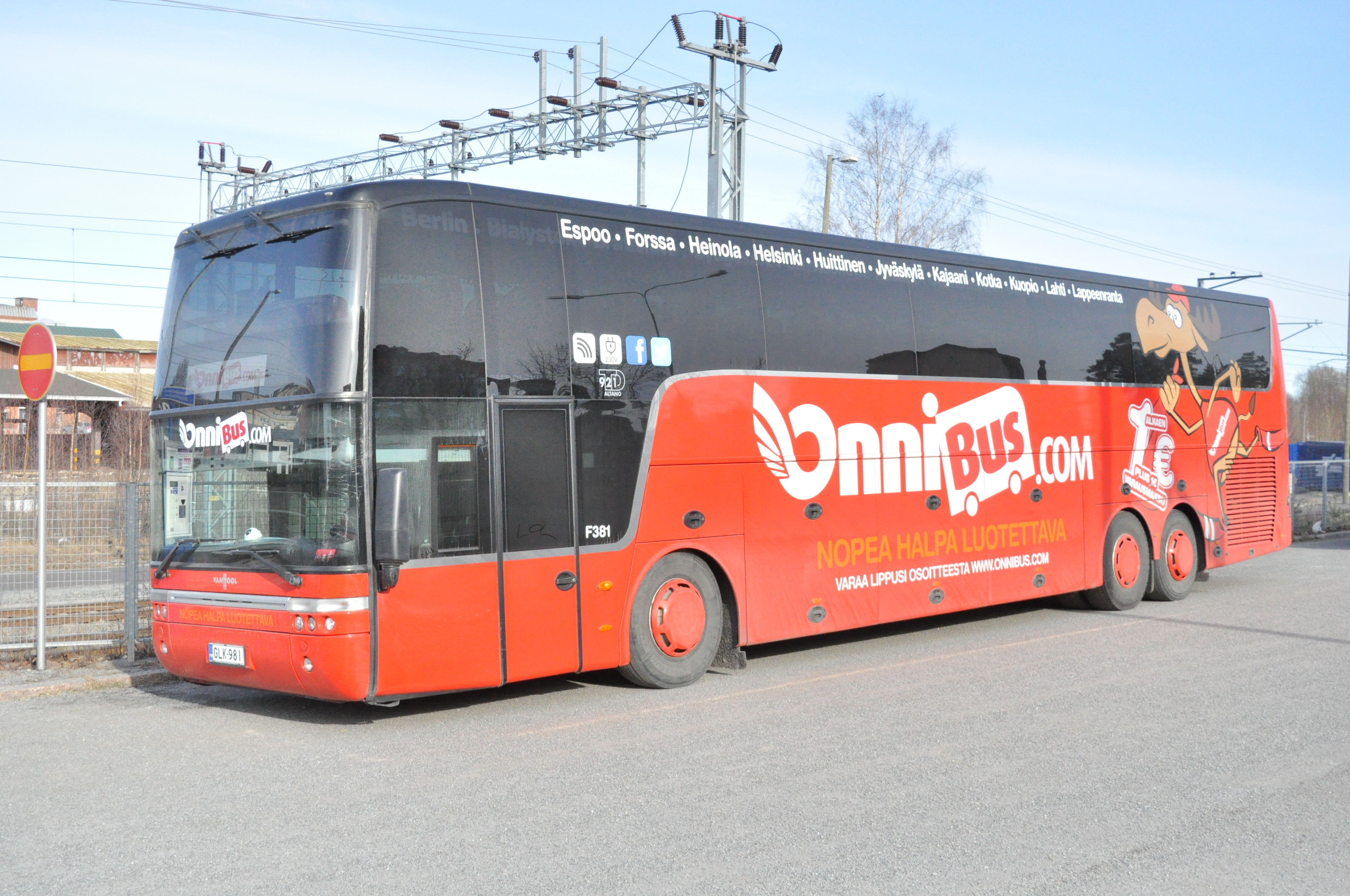 Onnibus F381 (GLK-981) at Vaasa.